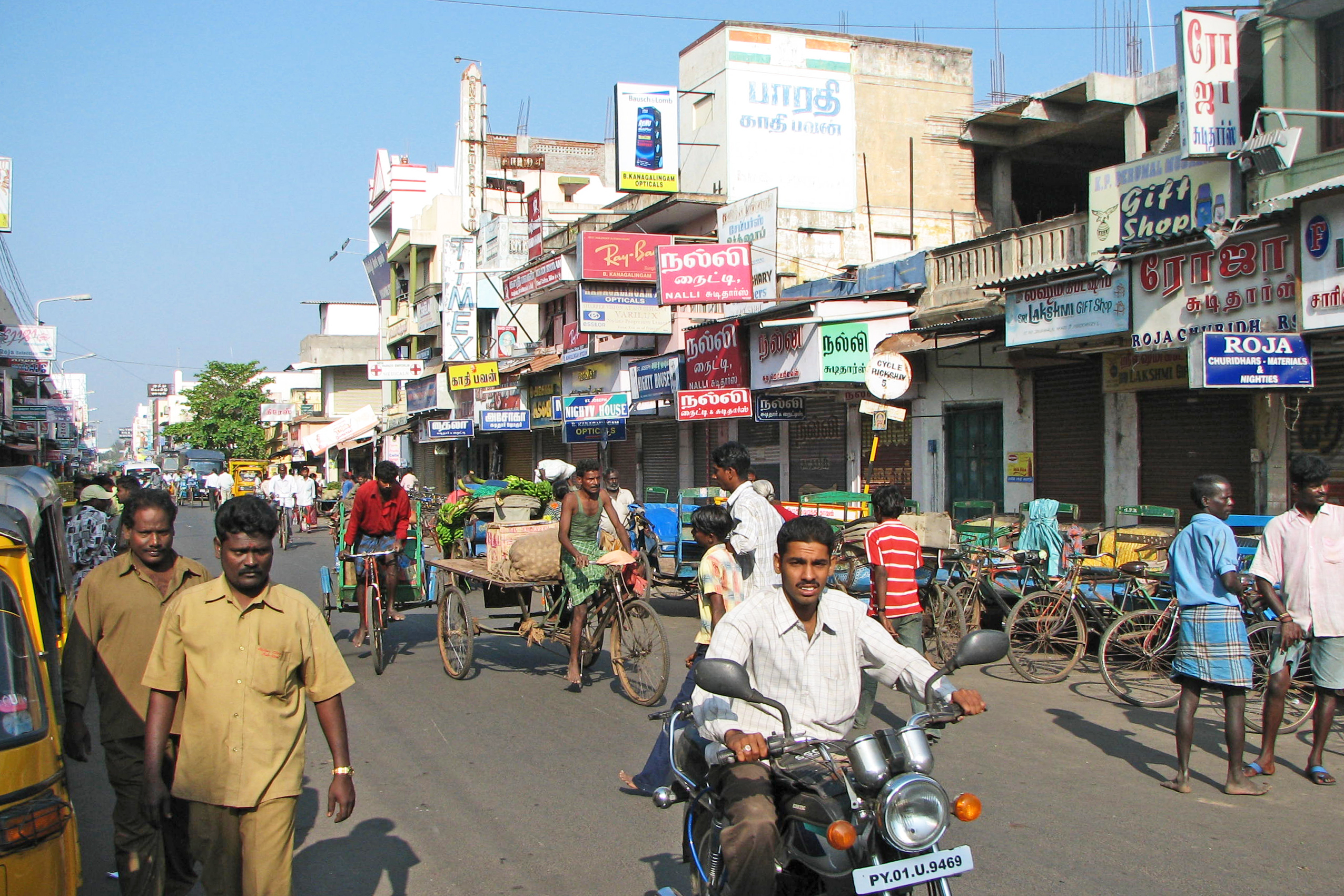 Puducherry street, India